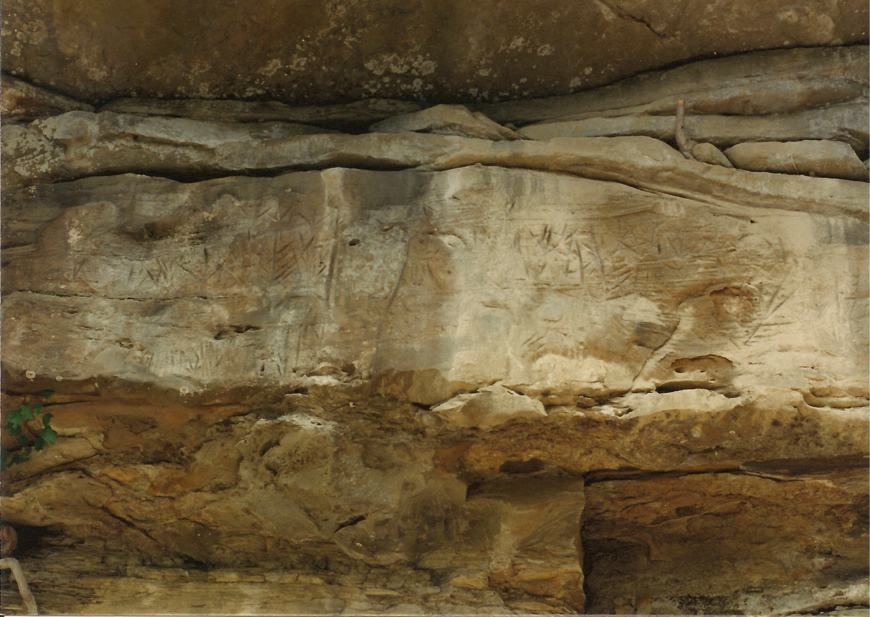 Red Bird Inscription, Clay Co. KY, in situ on Red Bird River, circa 1988.